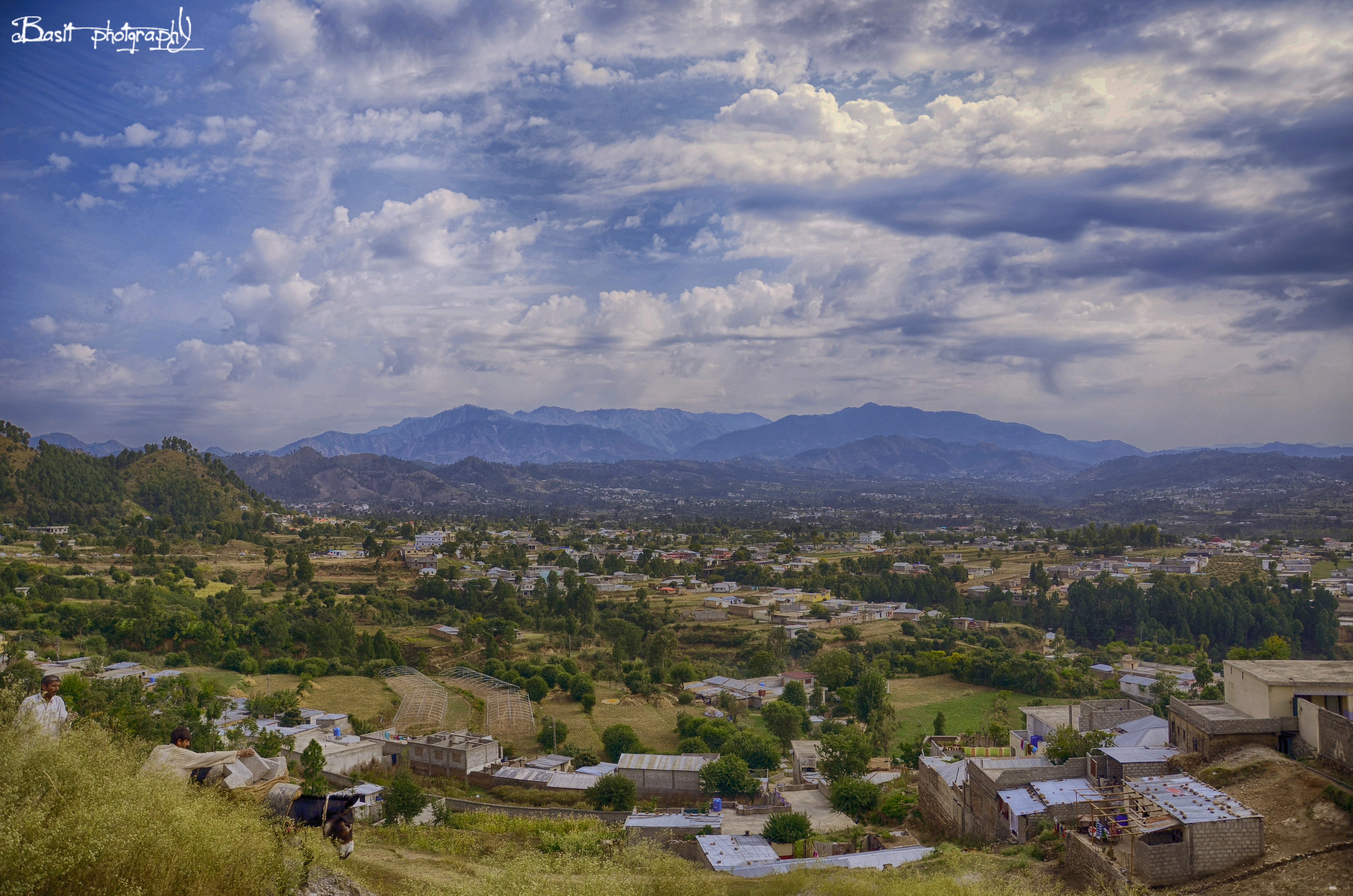 Mansehra pakistan